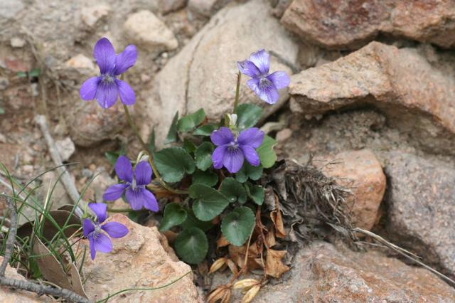 Viola rupestris, a photography originating of the internet site The accord of the autor, H. Brisse, is here.